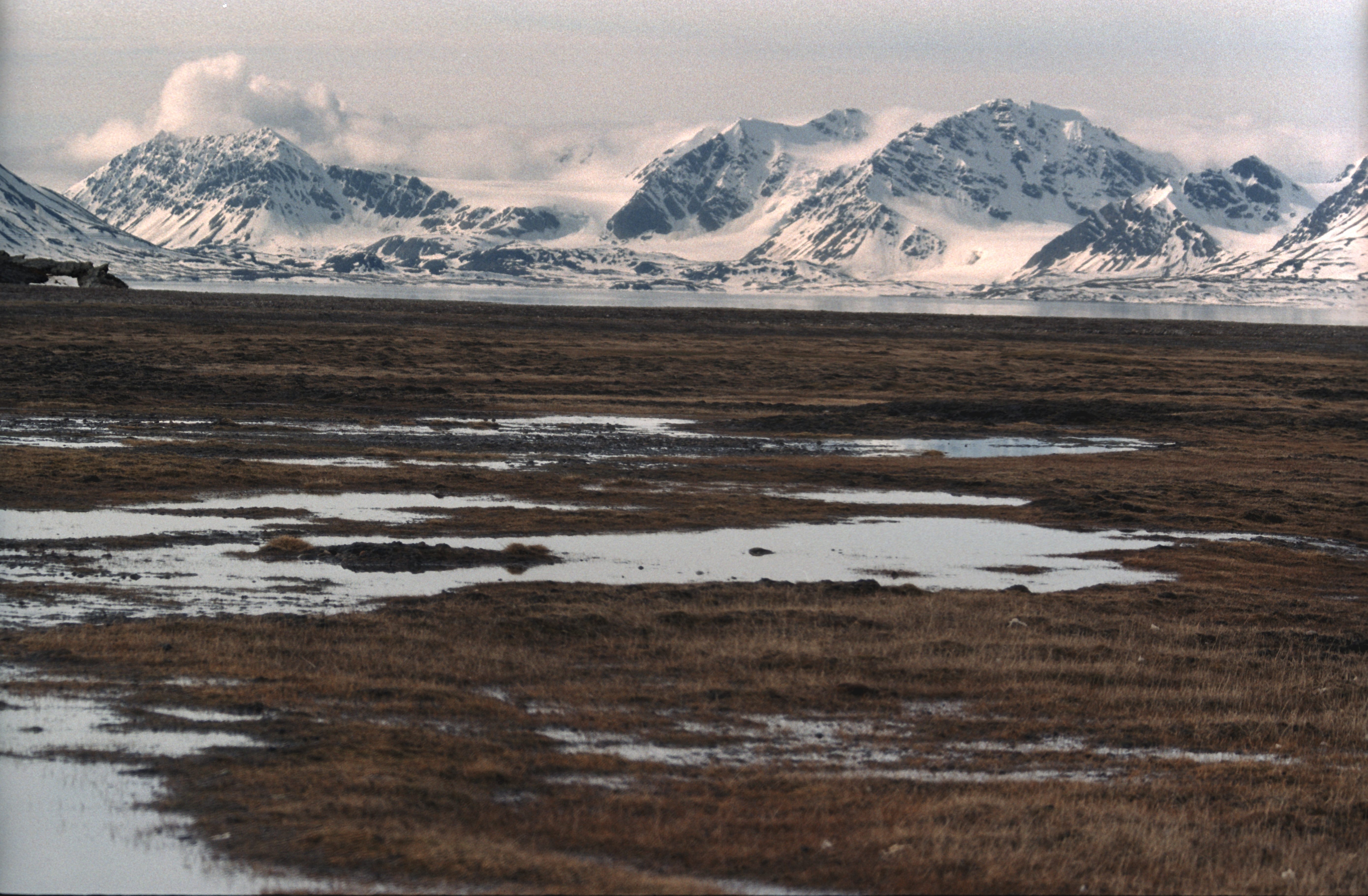 Svalbard, Bellsund, tundra. This is seen from the tundra plain below Ingeborgfjellet (Camp Bell) in Nordenskiöld Land, over the Bellsund fjord, and towards Cape Lyell (Wedel Jarlsberg Land) with (from the left): Activekammen mountain, Renardbreen glacier, Bohlinryggen mountain, Scottbreen glacier (hardly visible), Wijkanderberget mountain, and Halvorsenfjellet mountain.